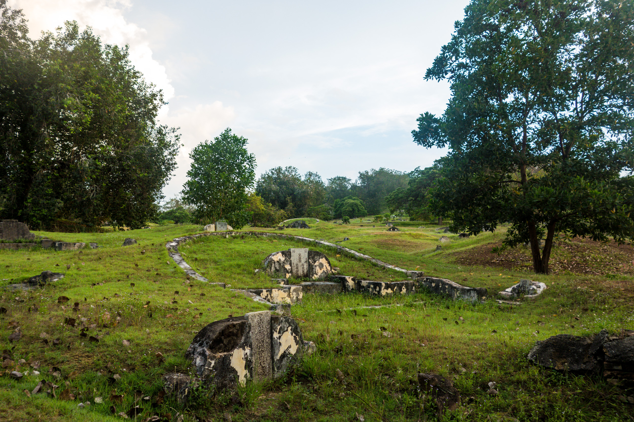 Malaysia - Melaka